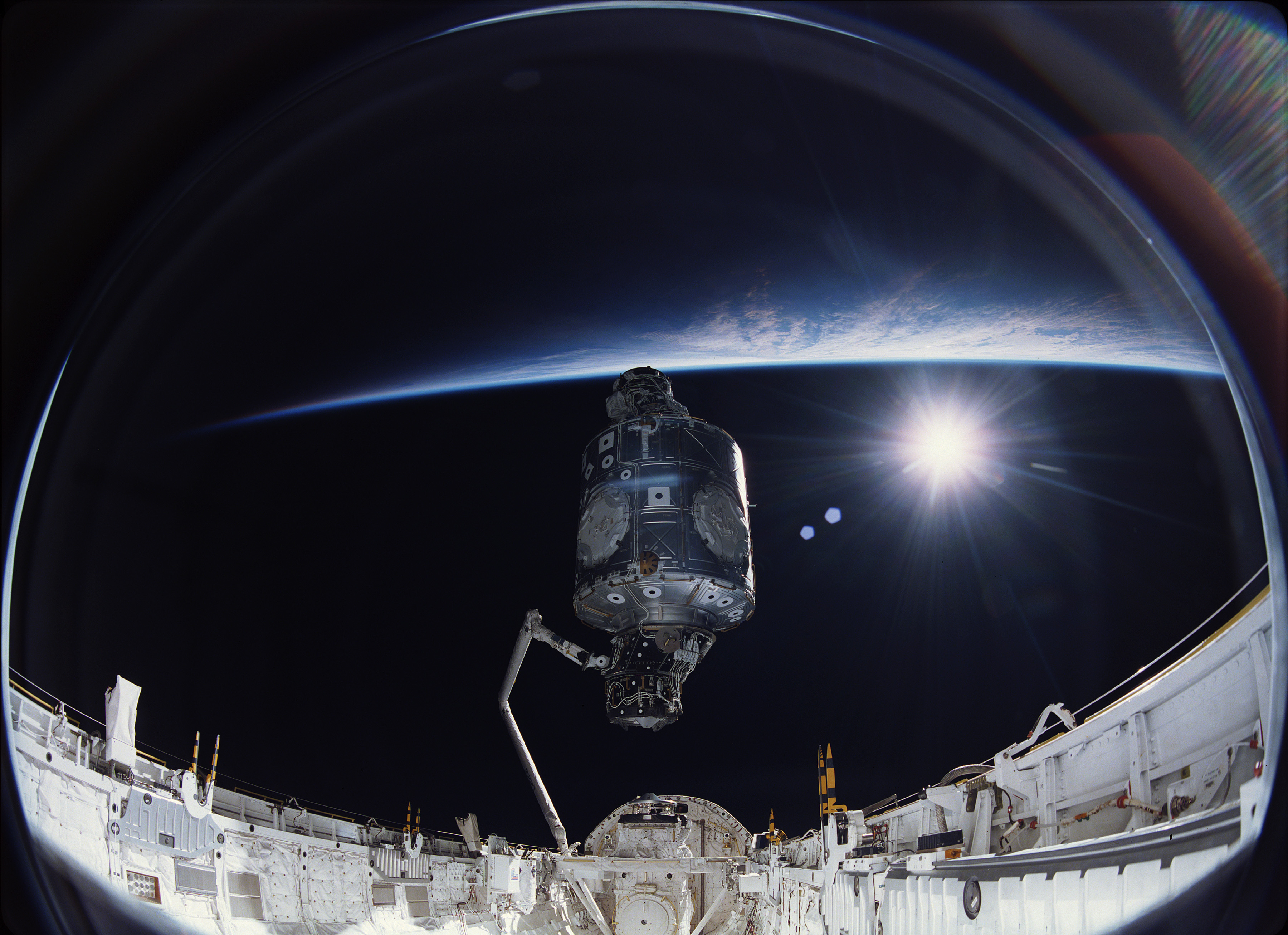 s99_03777 In December 1998, the crew of Space Shuttle Mission STS-88 began construction of the International Space Station, joining the U.S.-built Unity node to the Russian-built Zarya module. The crew carried a large-format IMAX® camera from which this picture was taken. - Unity being lifted out of Endeavour's payload bay to position it upright for connection to Zarya